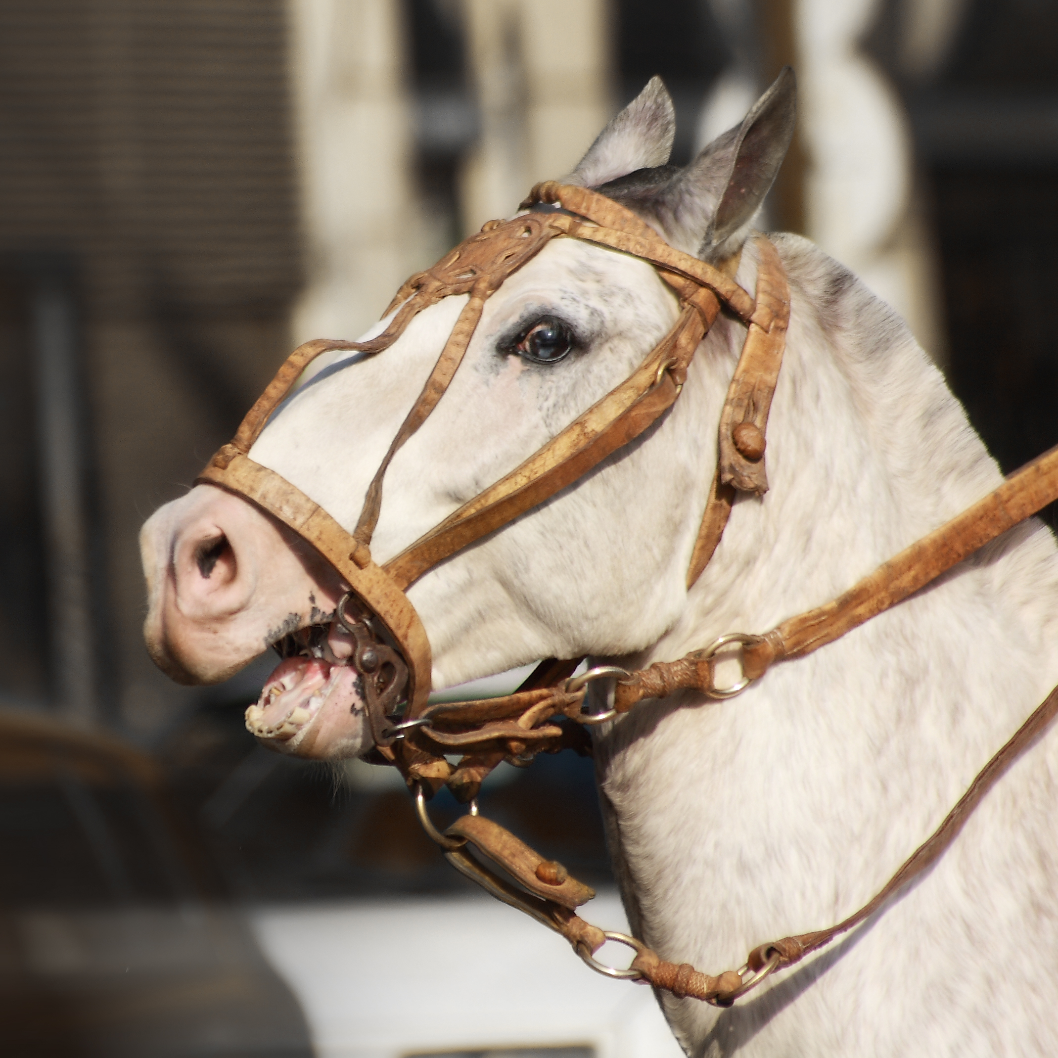 Criollo horse - Buenos Aires, Argentina